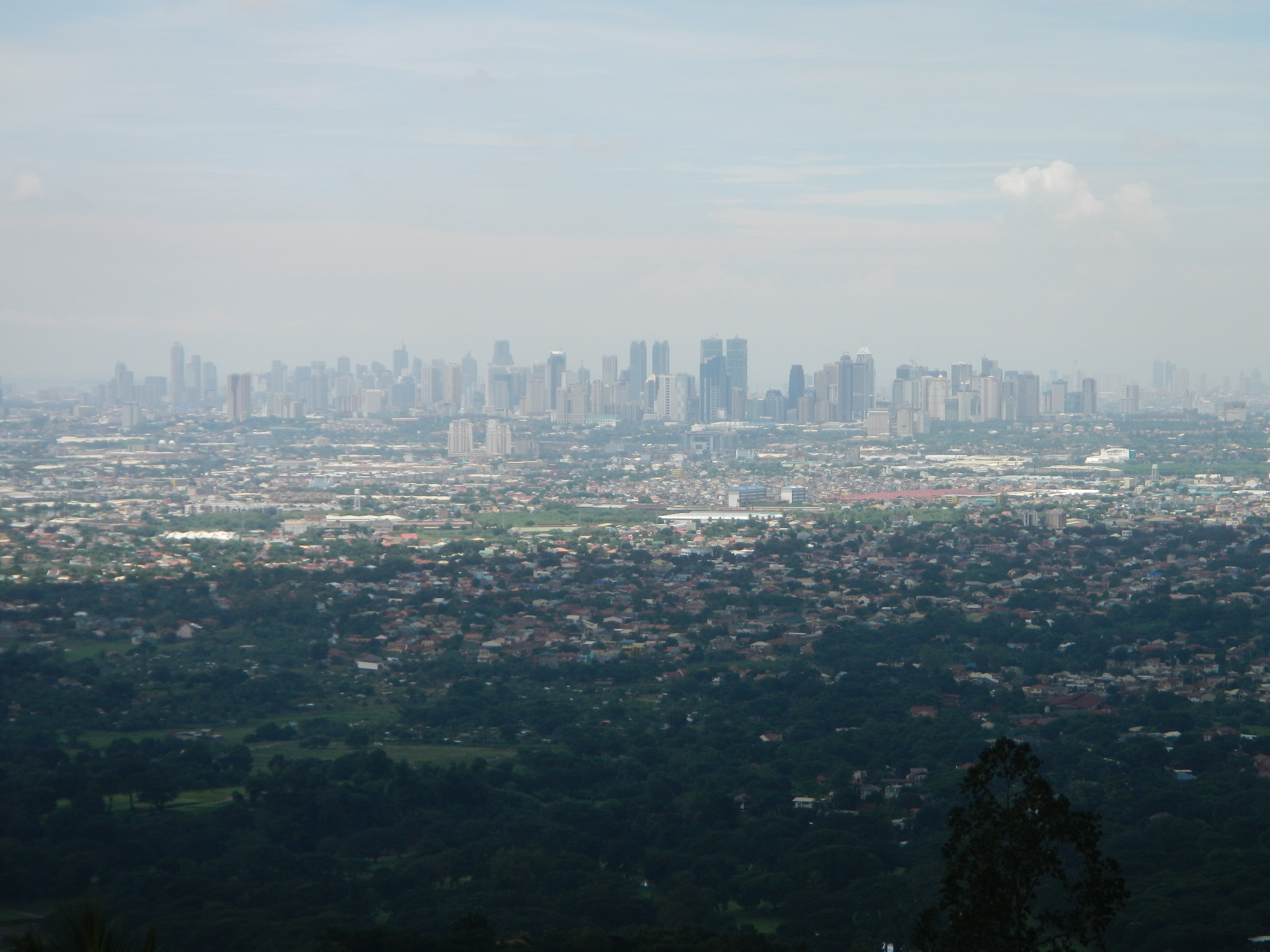 Cloud 9 Hotel Resort - Cloud 9 Sports and Leisure Club, Hotel and Seminar Venue - Barangay Sta. Cruz, Sumulong Highway, Antipolo City, Luzon, Philippines Antipolo[1] [2][3] overlooking view of Metro Manila Coordinates: 14°36'48"N 121°9'15"E[4] [Cloud 9 Sports and Leisure Club, Hotel and Seminar Venue] 14° 36' 48.83" N 121° 9' 15.88" E - Antipolo[5]